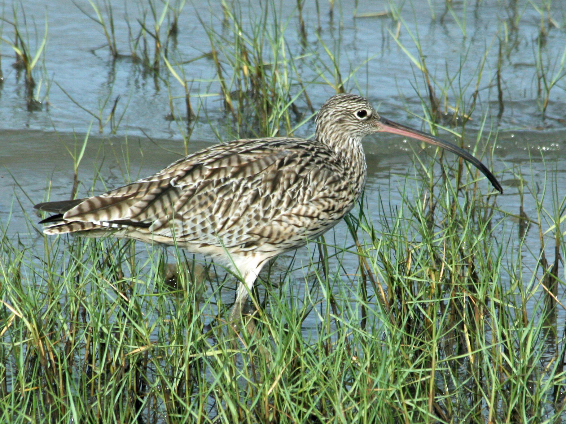 Far Eastern Curlew, also Eastern Curlew (Numenius madagascariensis) - Cairns, Australia